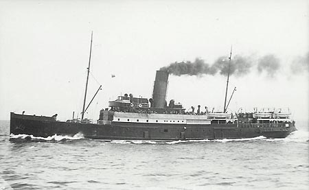 SS Mona at sea.